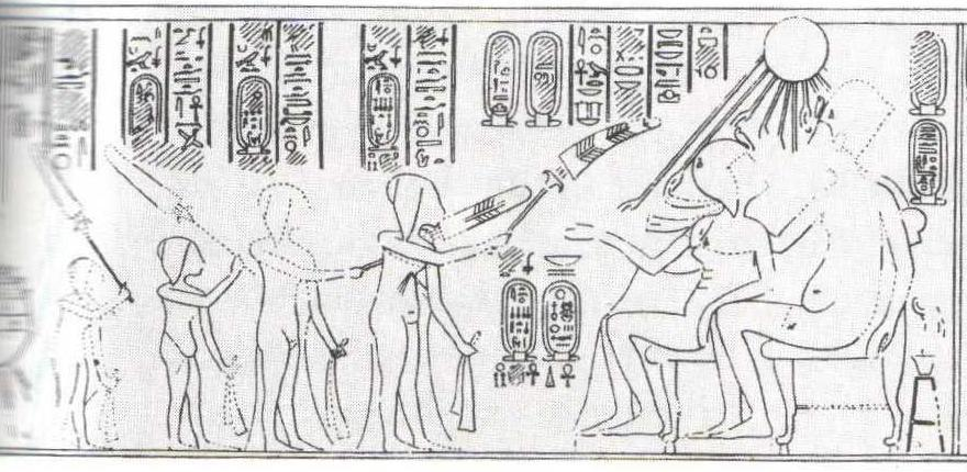 The royal family of Amarna: Akhenaten and Nefertiti with their daughters Meritaten, Meketaten, Ankhesenpaaten and Neferneferuaten. Amarna tomb of Huya.